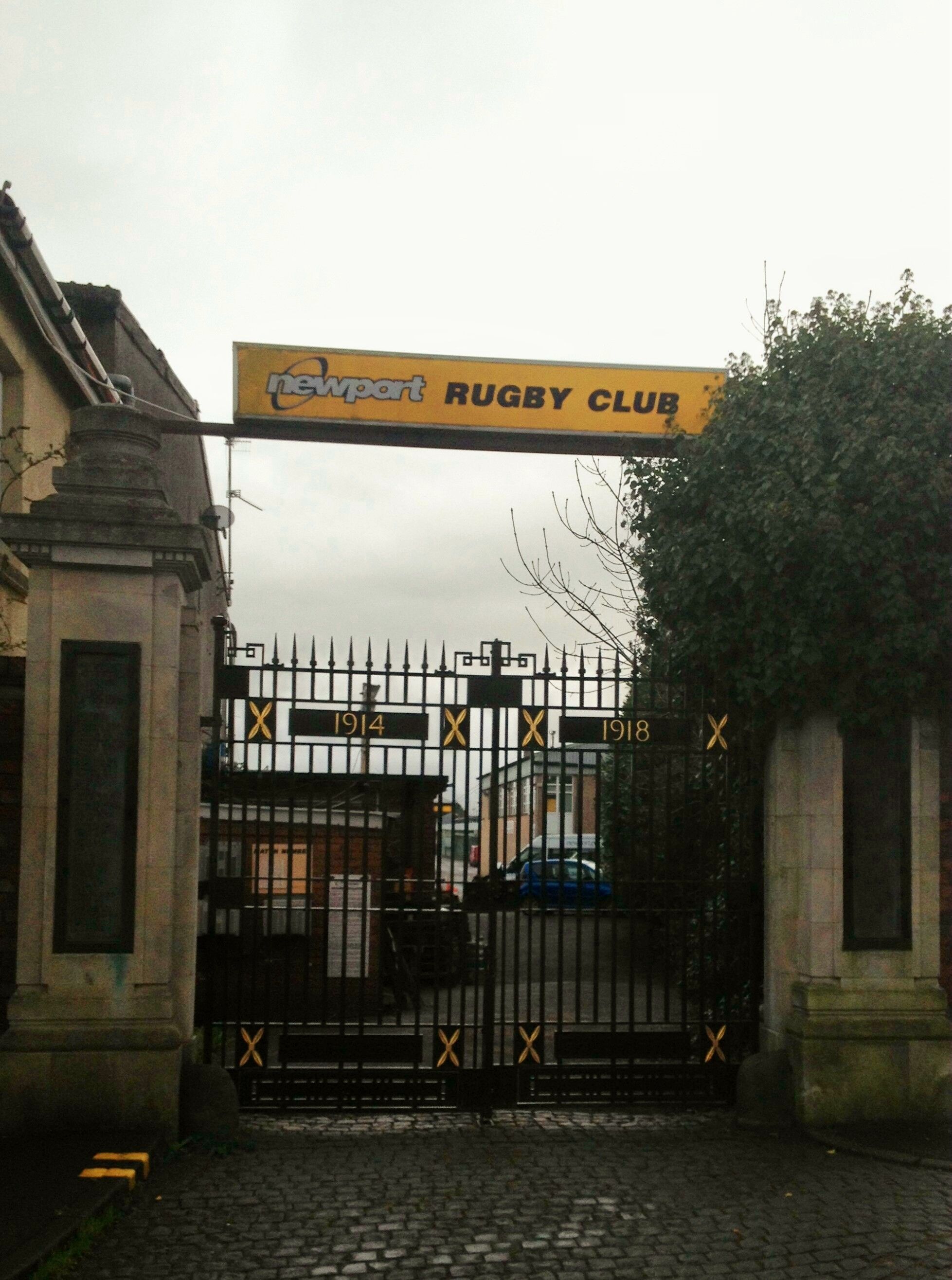 Dated gate leading to the Rodney Parade stadium, Newport, South Wales